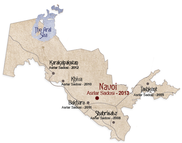 map od asrlar sadosi 2013